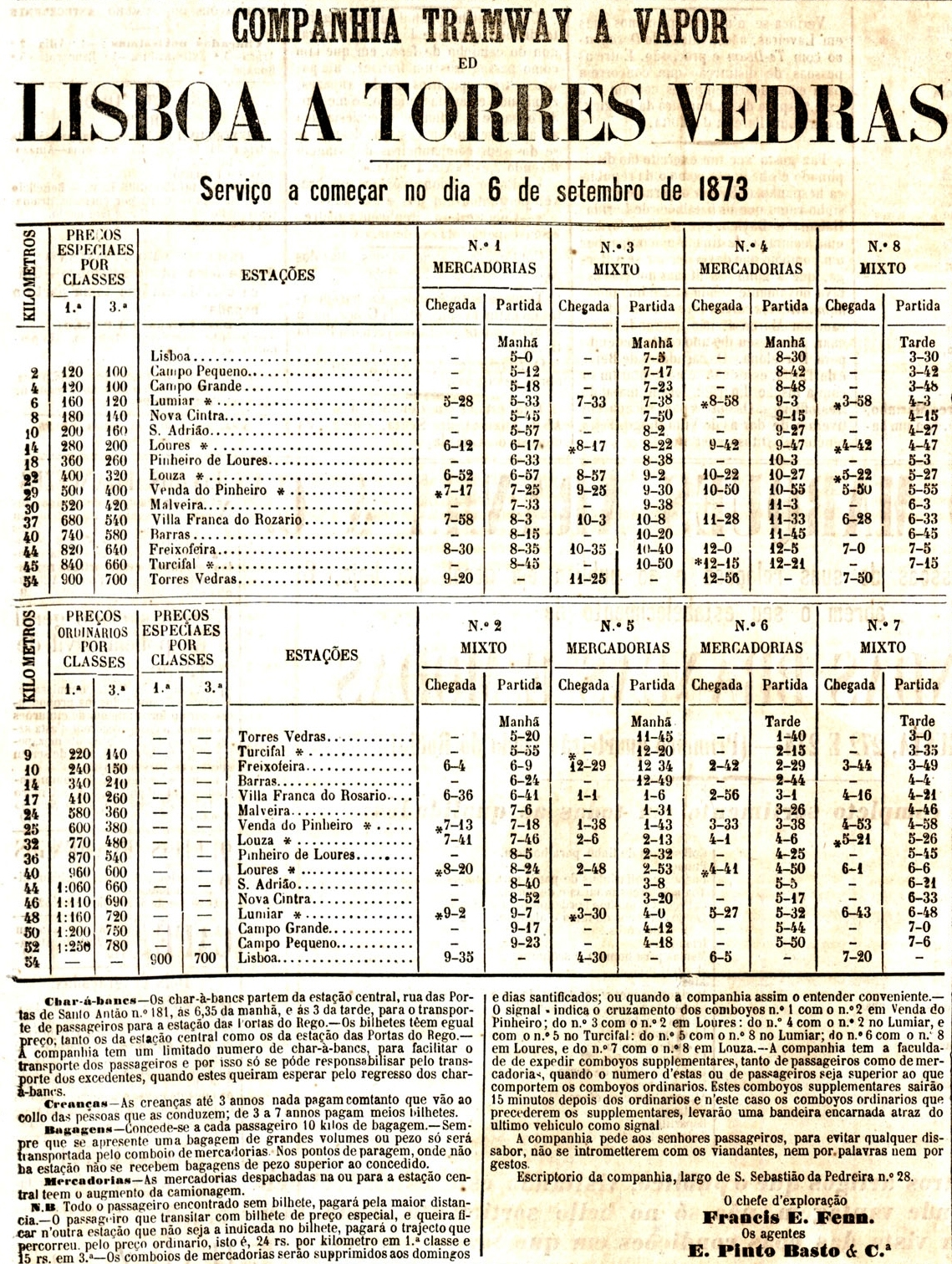 Timetable for the Larmanjat trains to Torres Vedras, in Portugal. This image was published on the Diario Illustrado newspaper No. 396, of 6th September 1873, and scanned by the Biblioteca Nacional de Portugal.